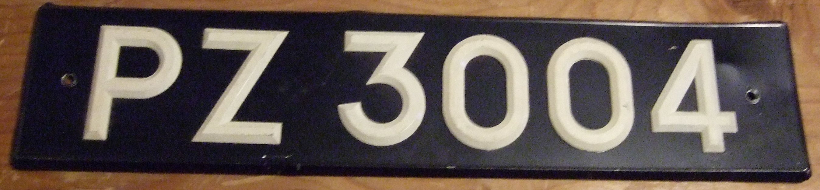 Older pre 1968 non-reflective white plastic numbers bolted onto a black metal backing plate.